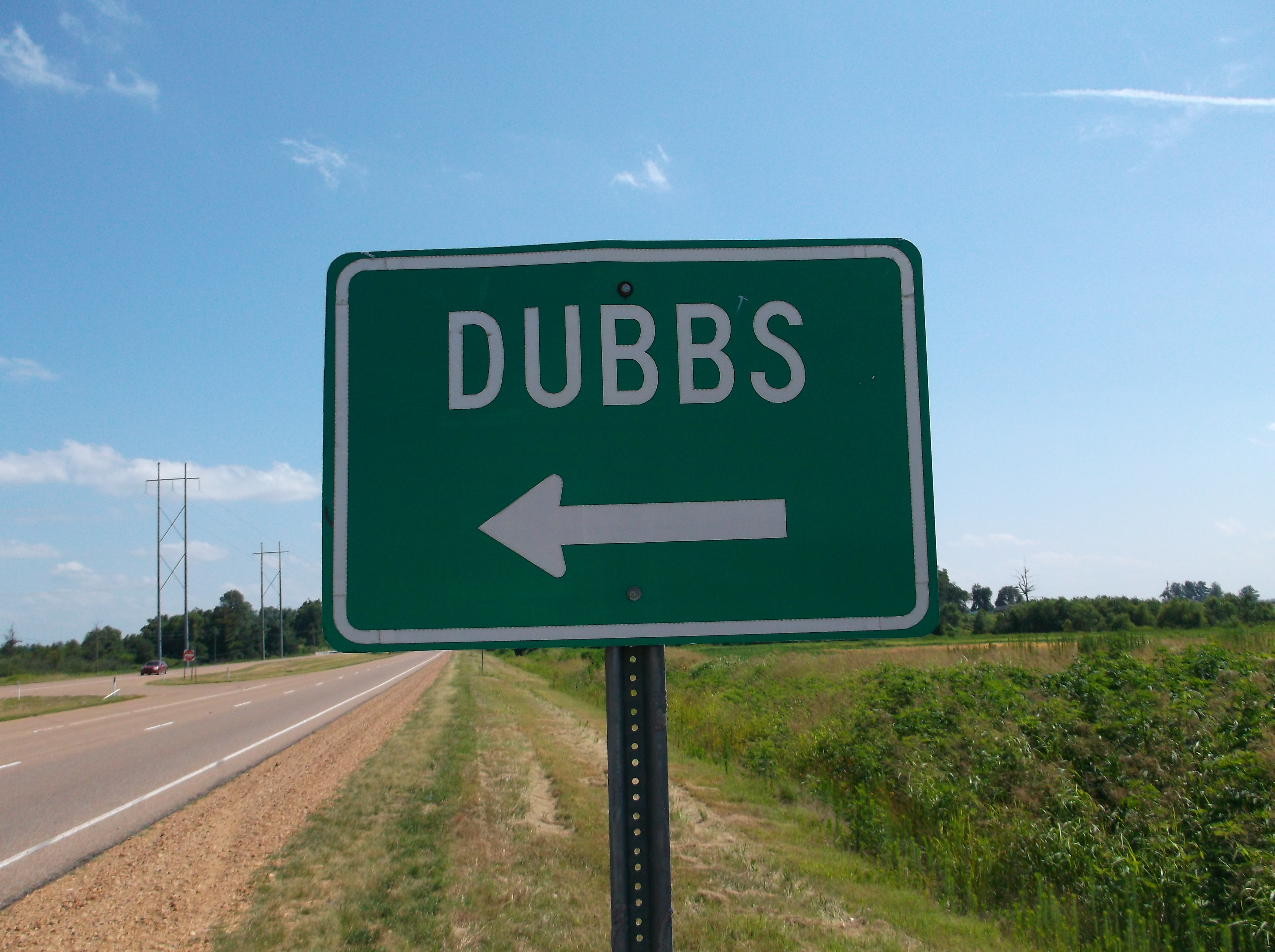 Highway sign located on US Highway 61